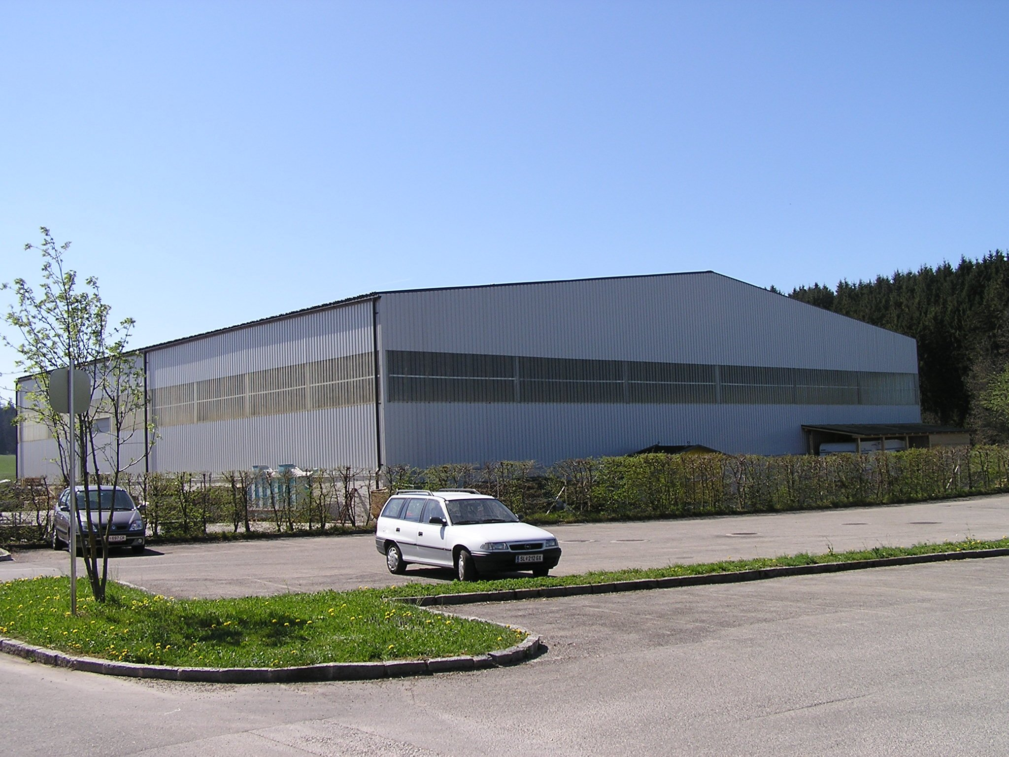 Factory hall in Steindorf bei Straßwalchen, Salzburg state, Austria. Fronts and roof made from trapezoidal sheet metal. Illumination through transparent plastic sheets with same shape as trapezoidal sheet metal.